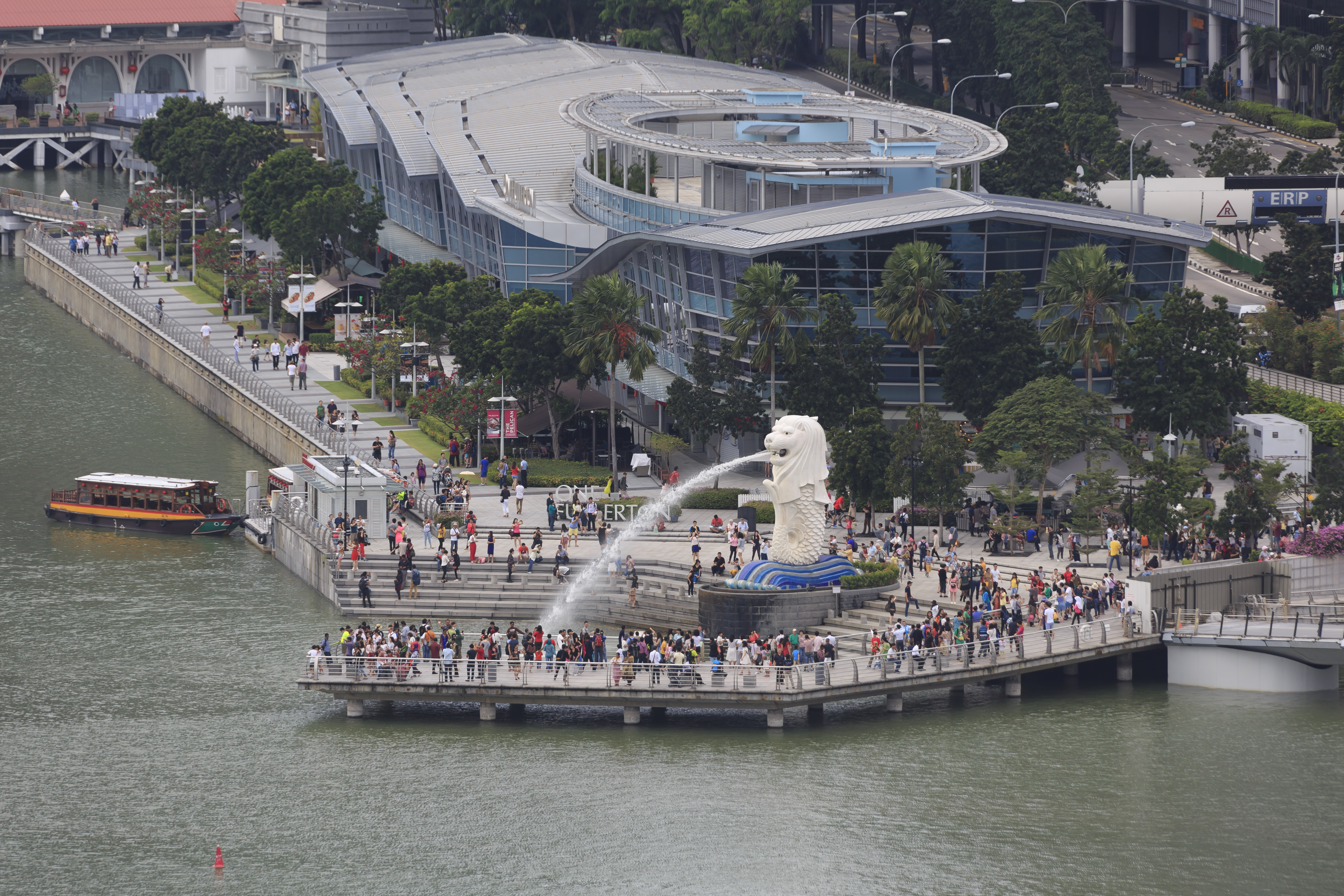 Singapore: The Merlion Statue at Marina Bay